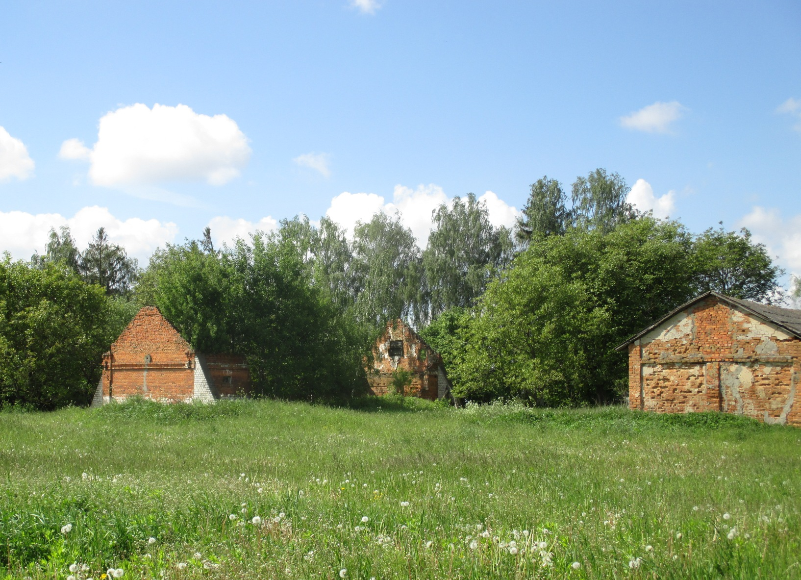 Czech outbuildings